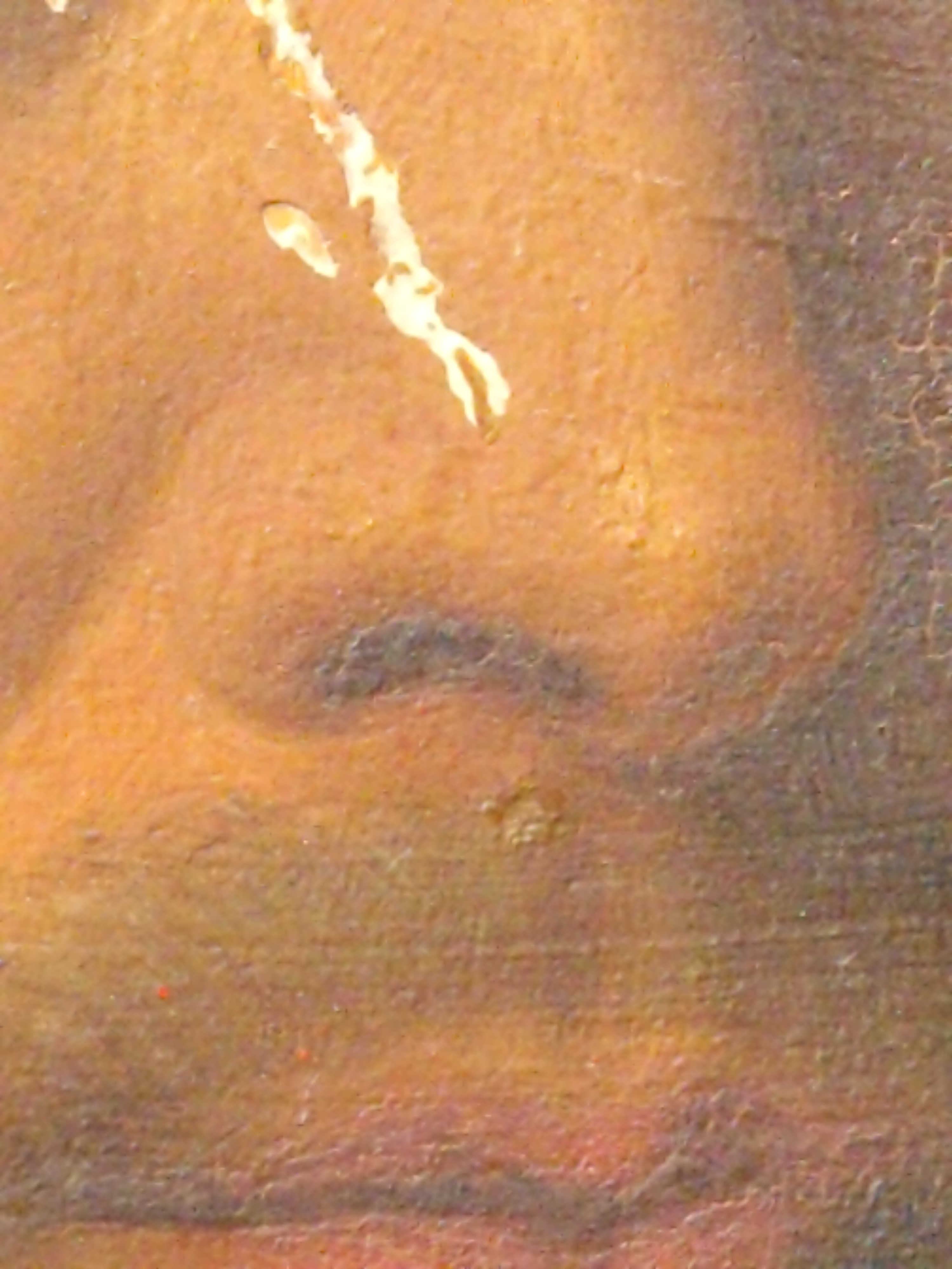 Detail of the Lucan portrait of Leonardo da Vinci. Believed by some experts to be a self-portrait and therefor the work upon which a number of later paintings (such as that in the Uffizi) are based.